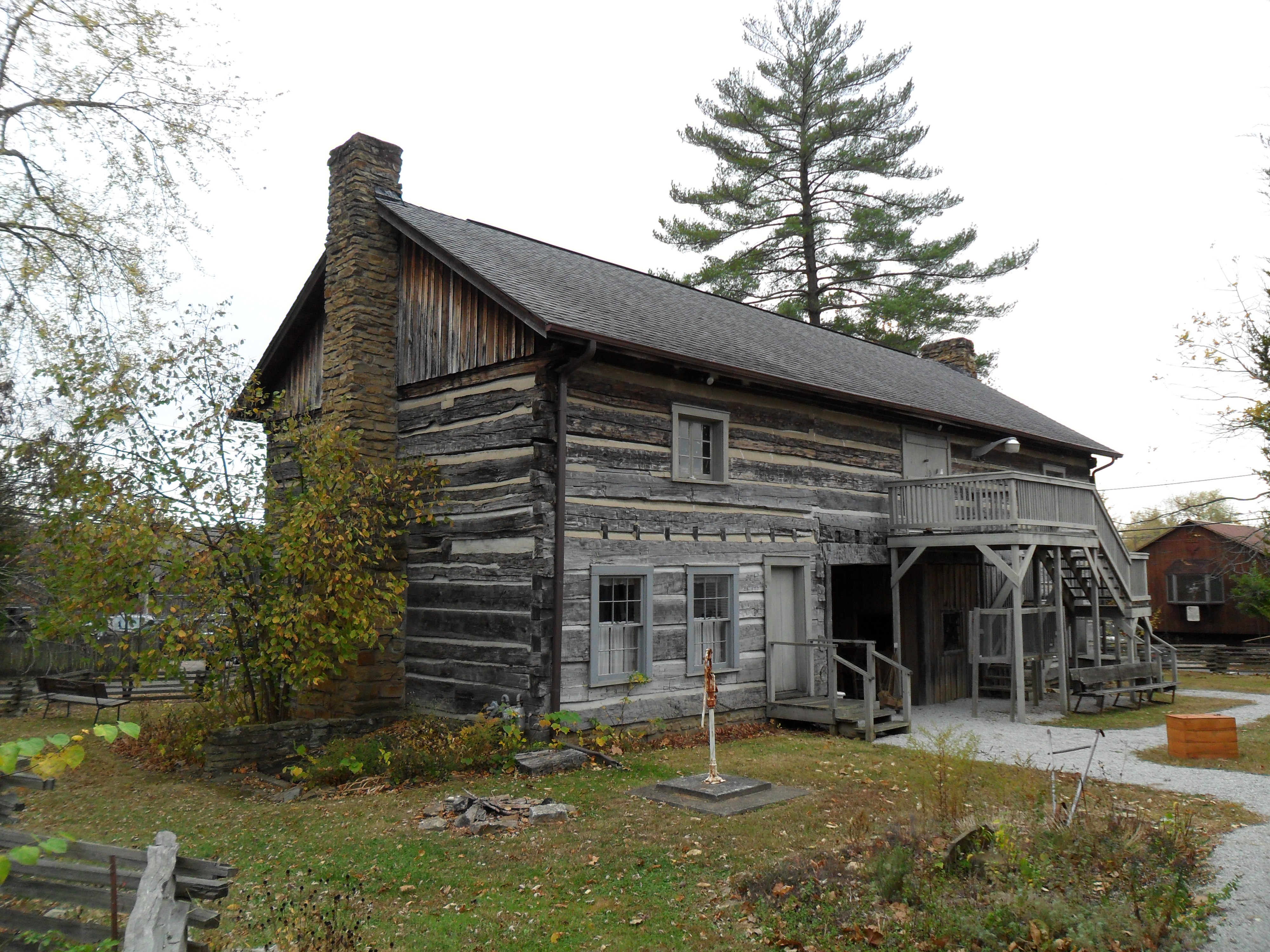 Nashville Historical Museum